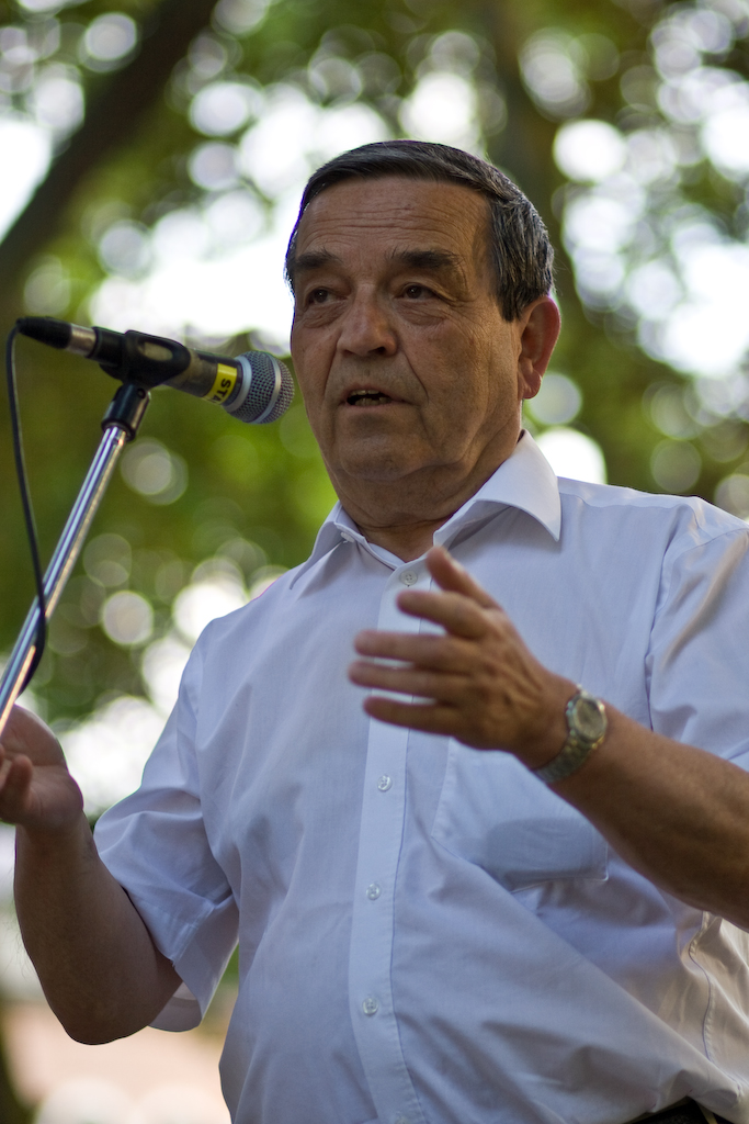 Leuven in Scene opening speech by Louis Tobback, mayor of Leuven.